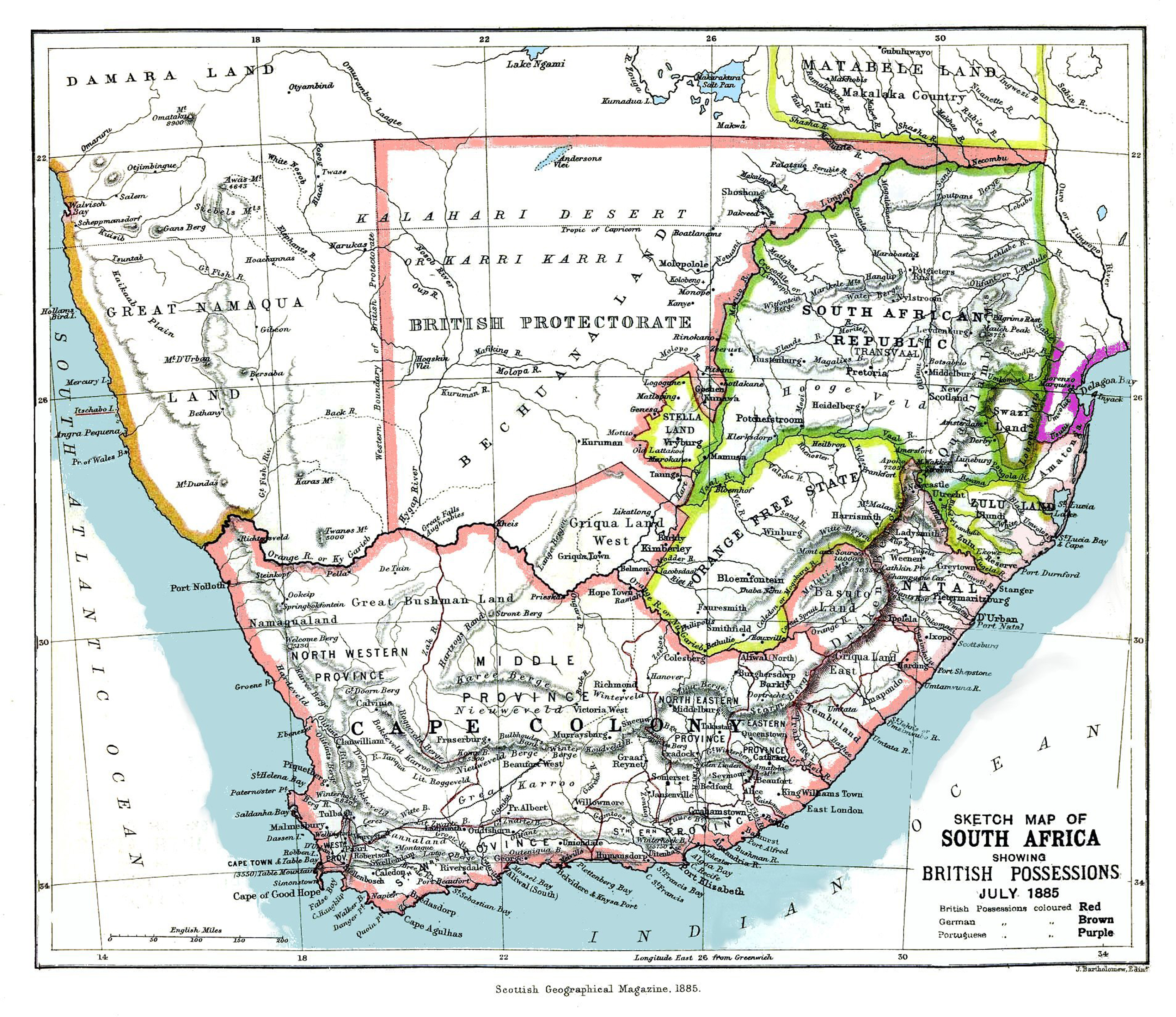 Sketch Map of South Africa showing British Possessions July 1885